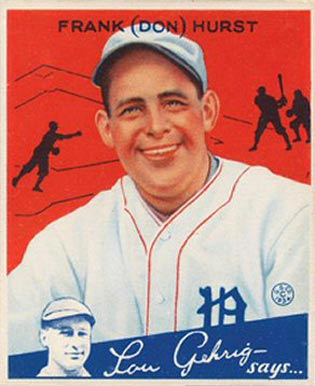 1934 Goudey card of Frank "Don" Hurst of the Philadelphia Phillies #33. PD-not-renewed.